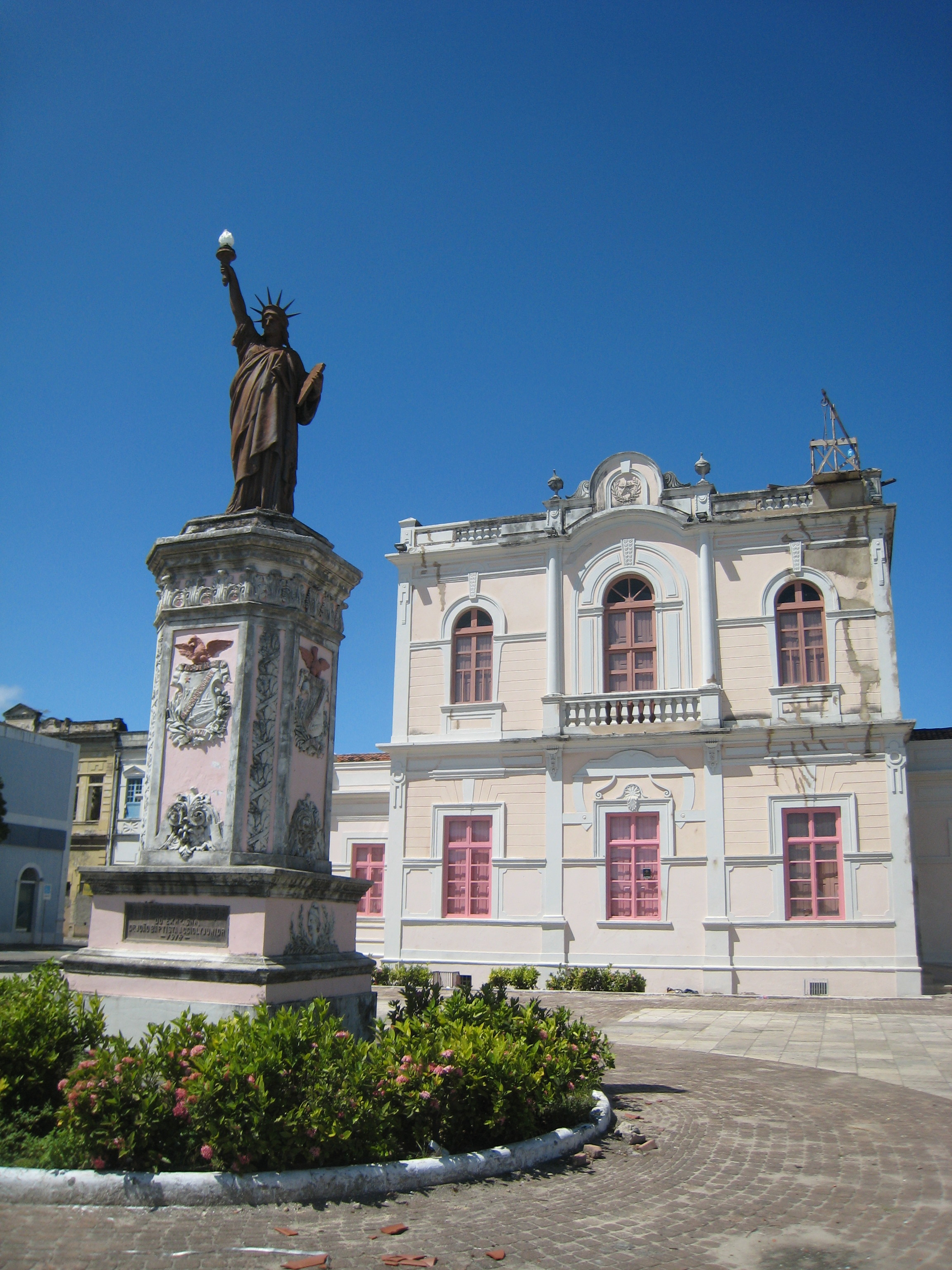 A cast metal replica of the Statue of Liberty in a small square behind the Museum of Image and Sound of Alagoas (MISA), in Maceió, capital of Alagoas, Brazil.